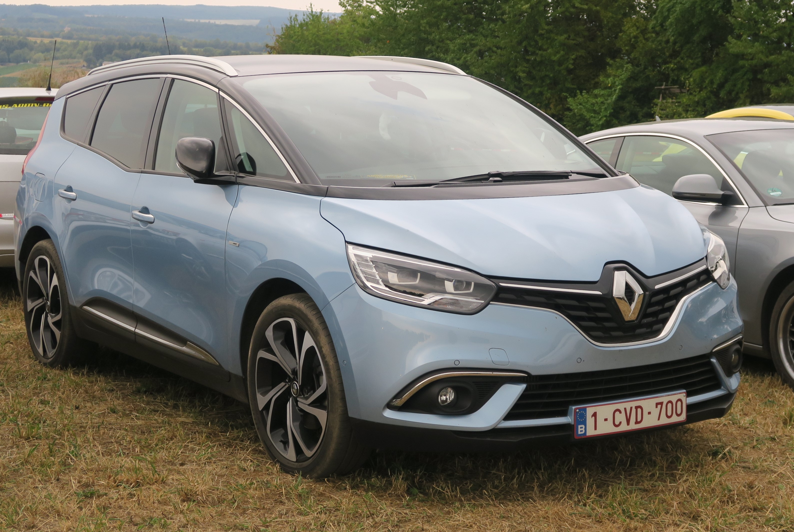 Renault Scénic IV aus Belgien in Saarland